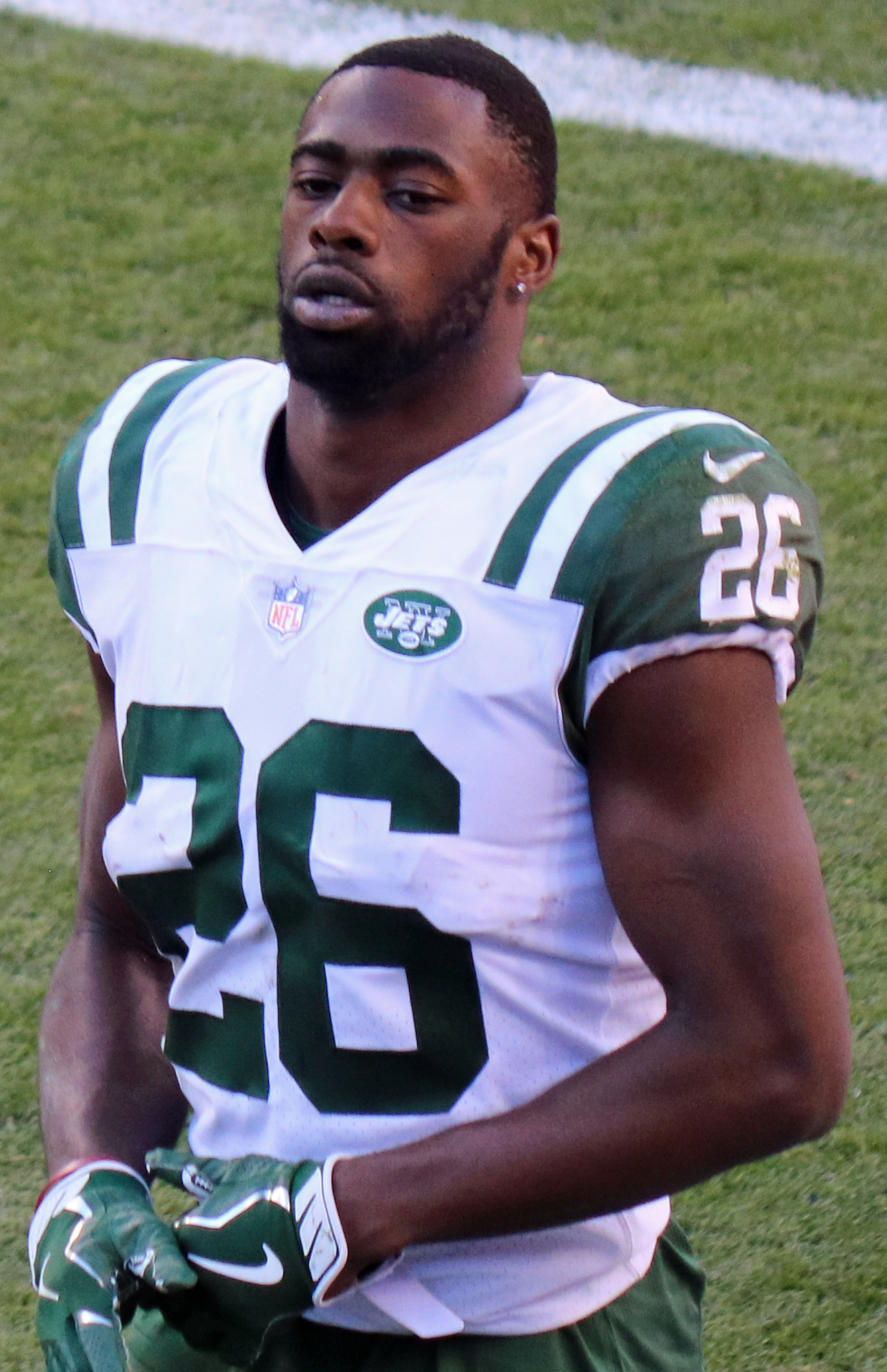 Marcus Maye, a National Football League player.